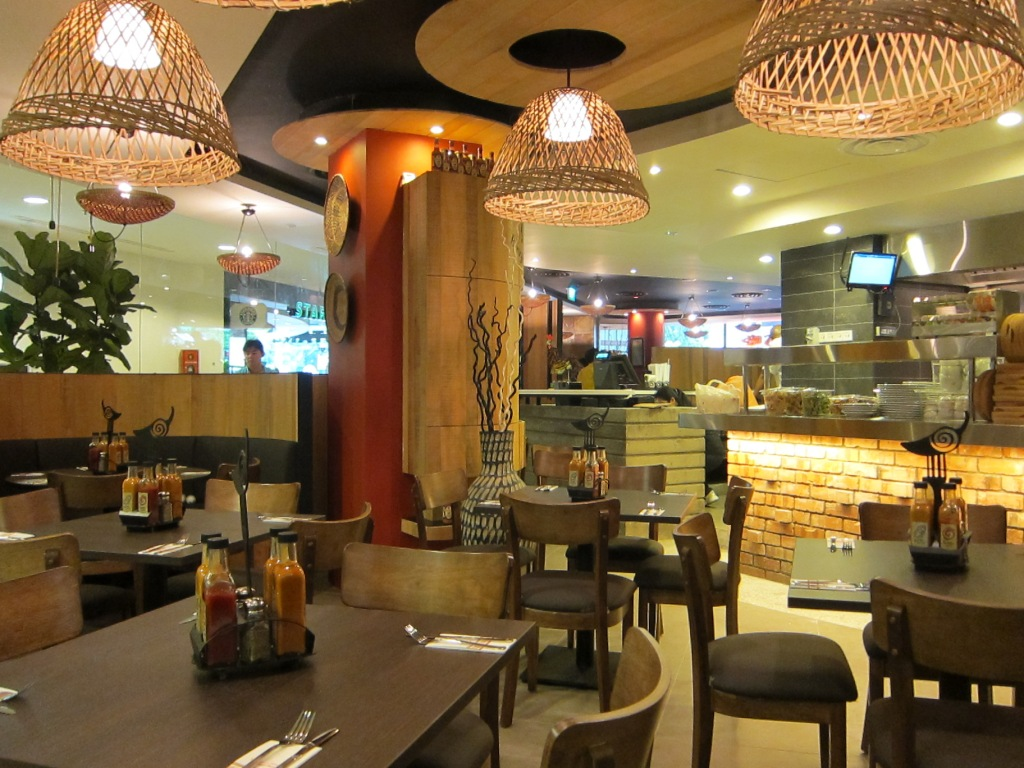 Nando's Restaurant in Singapore.